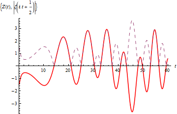 Riemann Siegel Z-function (red) and the absolute value of the Riemann zeta function on the critical line (dashed).